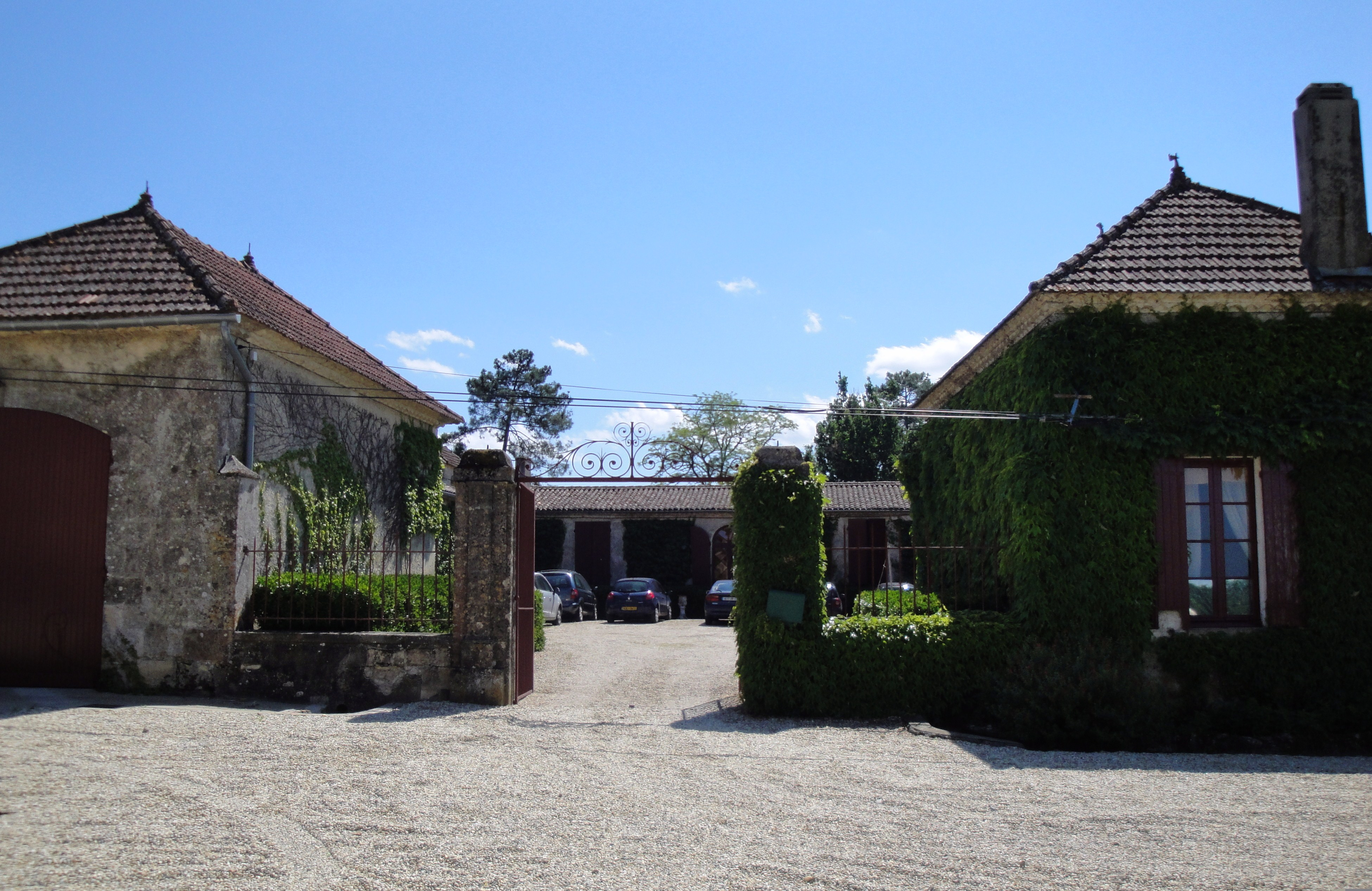 Main building of Château Sigalas-Rabaud